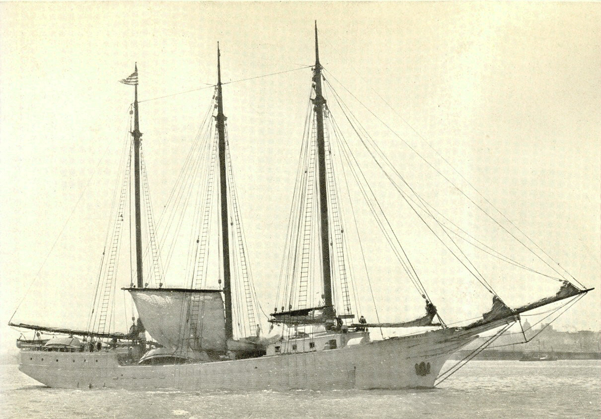 Union Fish Company's Transporting Power Schooner "Golden State" Subject: Fishing boats, Sailboats, Golden State (Boat) Tag: Vessels